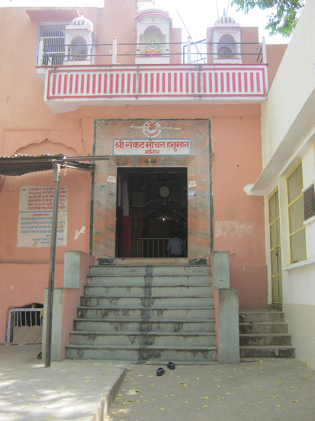 A Hanuman Temple in the campus